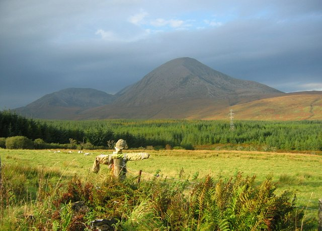 Beinn na Caillich and Goir a' Bhlair, the site of a battle between the Mackinnons and Vikings. West of Broadford on the Isle of Skye.